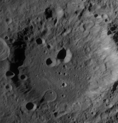 LROC image WAC No. M118871122ME. Calibrated by LROC_WAC_Previewer.